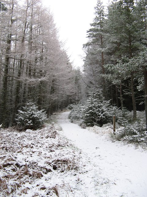 Glenmore Forest Path heading uphill behind the old Glenmore Lodge, now the Cairngorm Youth Hostel.